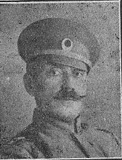 Portrait of Mihail Strandzhata from Macedonian-Adrianopolitan Volunteer Corps